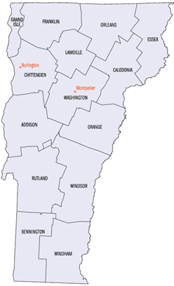 Smaller version of Vermont county map (from PD image)